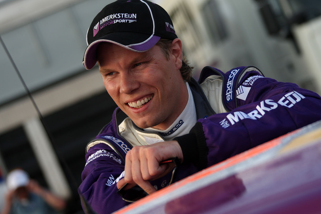 Portrait Peter van Merksteijn junior